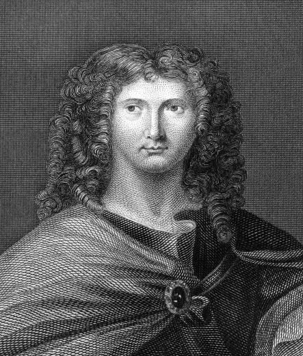 Wentworth Dillon, 4th Earl of Roscommon (c1630-1685)